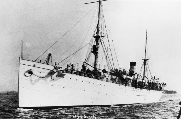 USS Supply (1873) Removed caption read: Photo # NH 67902 USS Supply before World War I